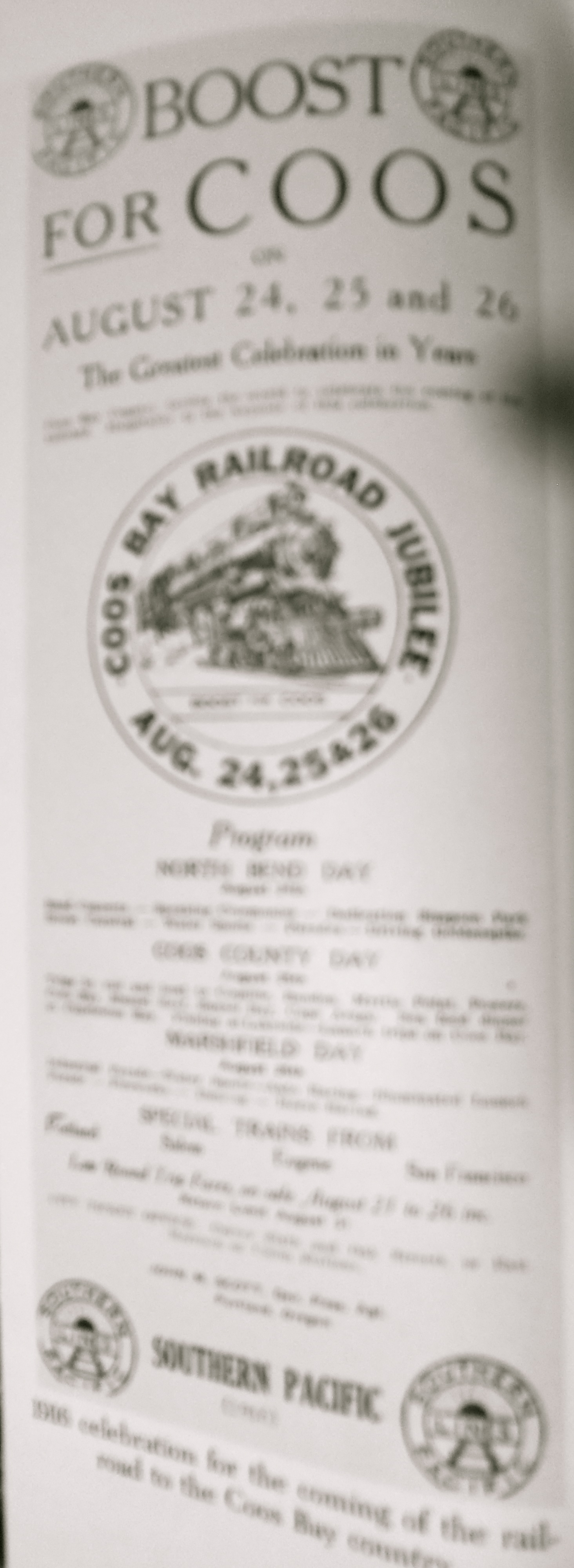 An advertisement for the arrival of the Coos Bay Railroad in August 1916